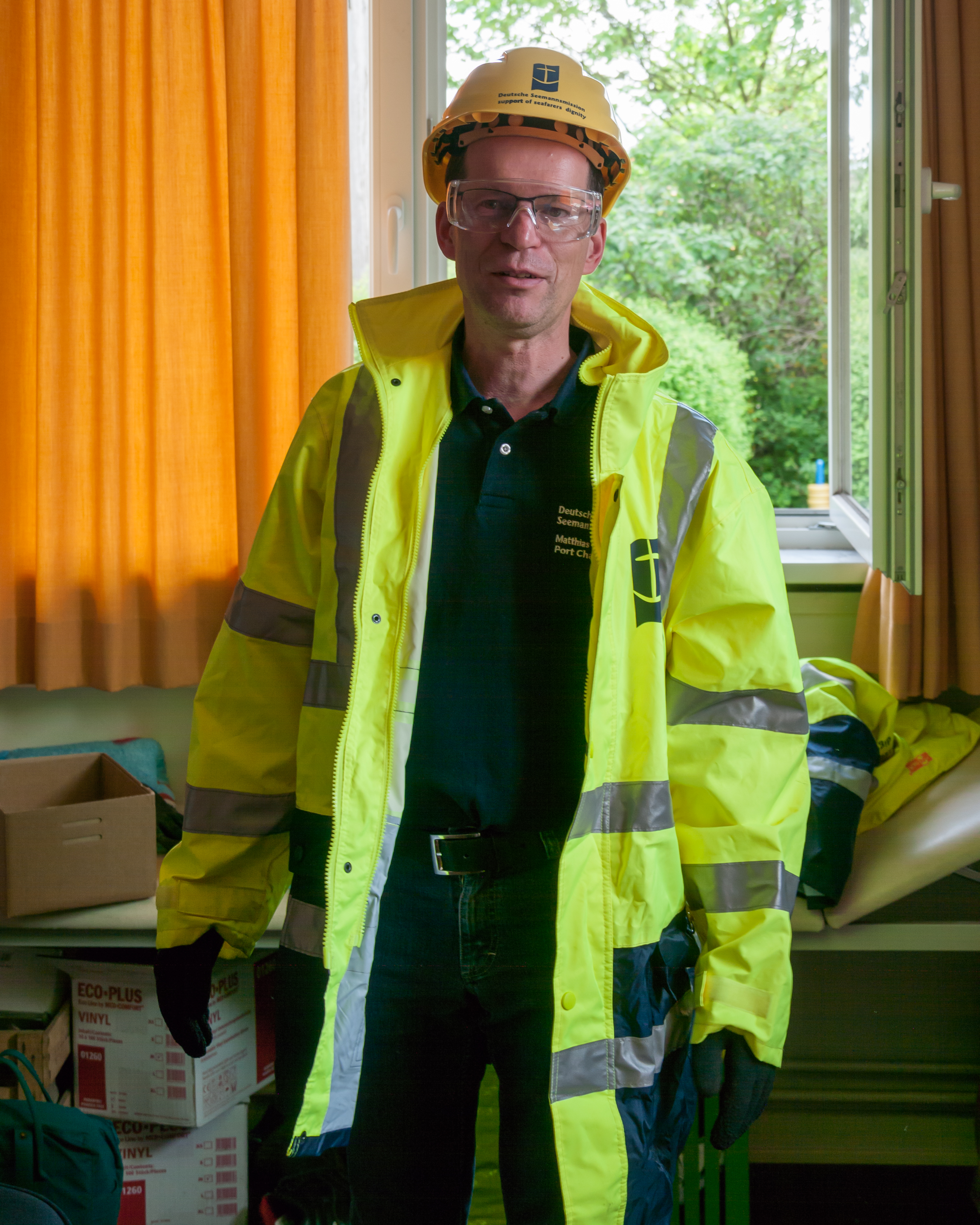 Wikipedia Ahoi at Duckdalben, Hamburg 2019